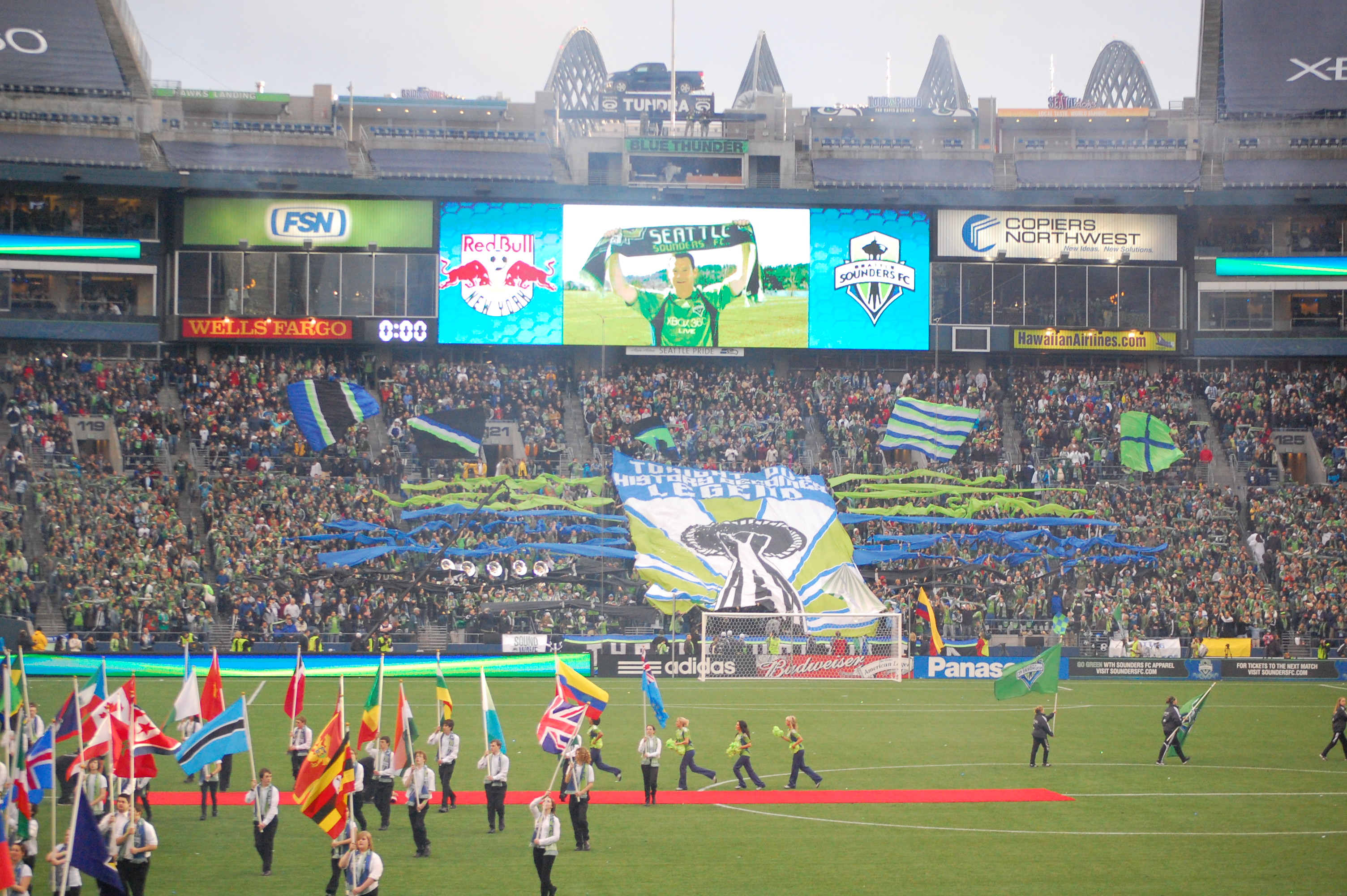 Emerald City Supporters unveil their overhead banner reading "Tonight Our History Becomes Legend" above a painting of the Space Needle in front of a raising sun. The display also included giant flags and table rolls.